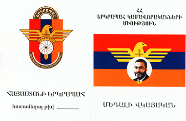 Հայաստանի Երկրապահ հուշամեդալի վկայական